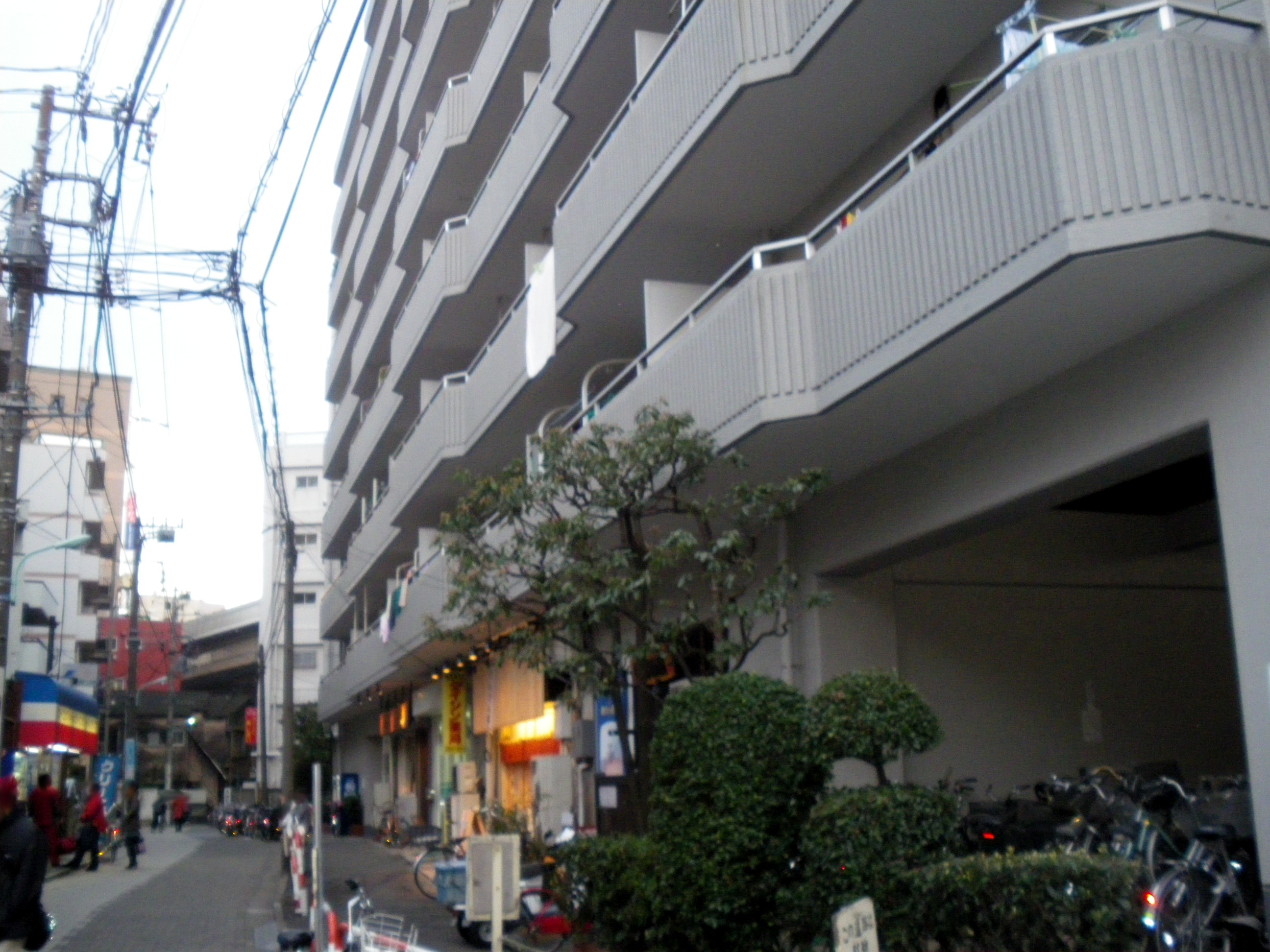 Former site of Jyorenji temple(Nakajuku,Itabashi,Tokyo)